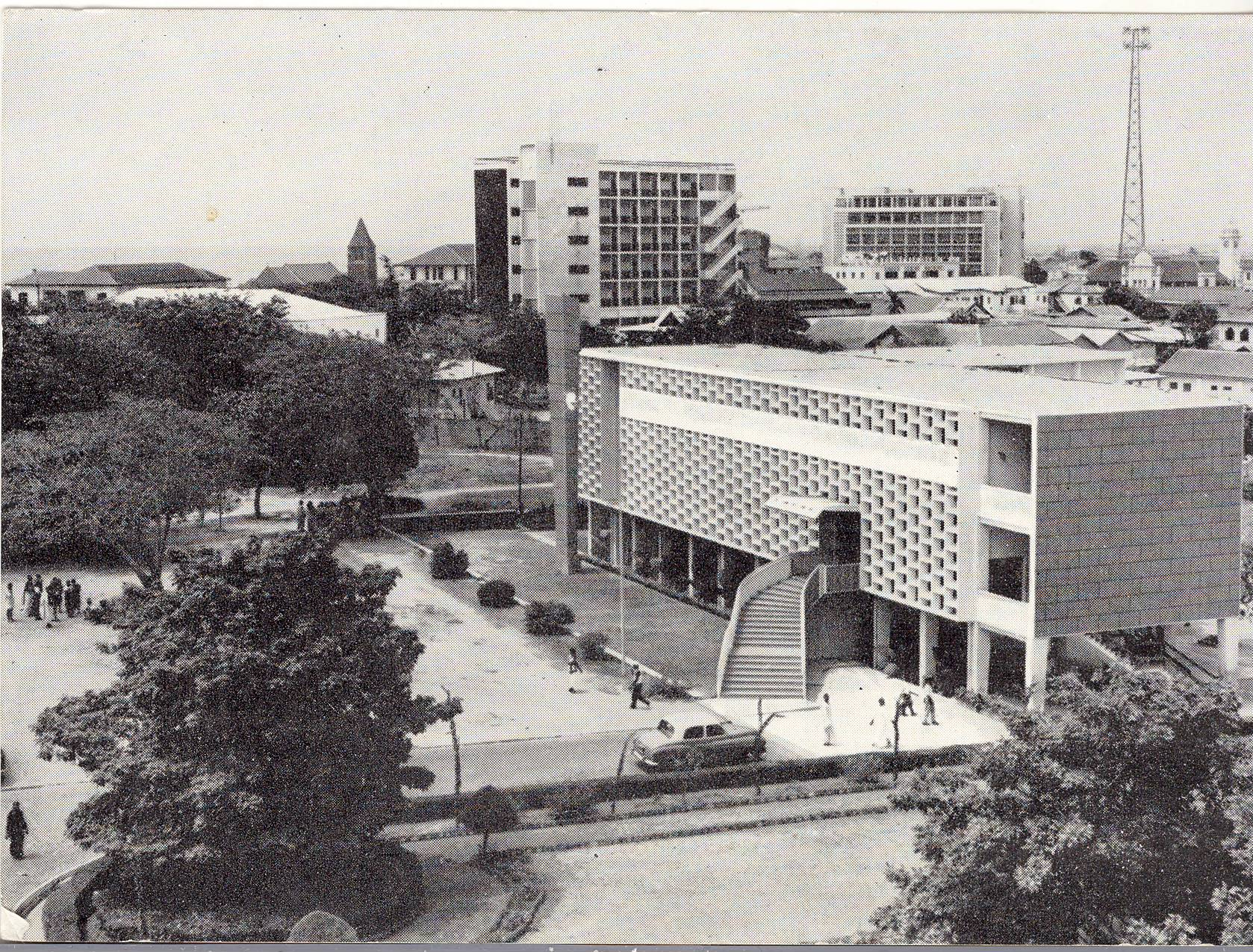 Central Library Accra. Architects: Nickson & Borys